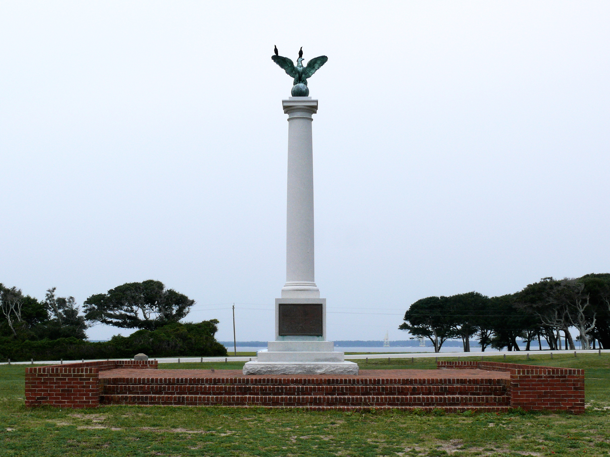 The Confederate (ACW) war memorial at Fort Fisher was erected by the North Carolina division of the United Daughters of the Confederacy in 1932. Photo taken with a Panasonic Lumix DMC-FZ50 in New Hanover County, NC, USA.